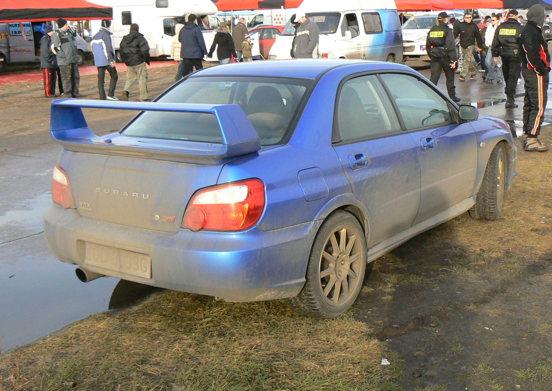 Second generation Subaru Impreza WRX STi, after the first facelift (MY2004 - 2005). Photo taken in Warsaw, Poland.